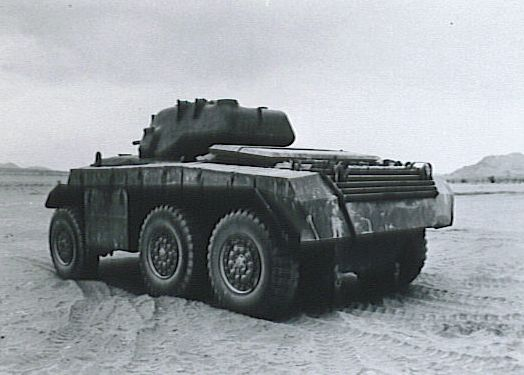 T17 Deerhound armored car.